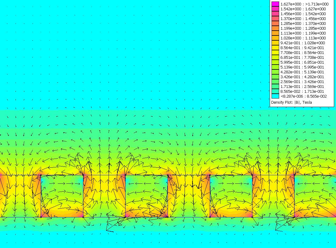 Screenshot of array of magnets I designed with circular periodicity of a Halbach array in open source FEMM 4.2.